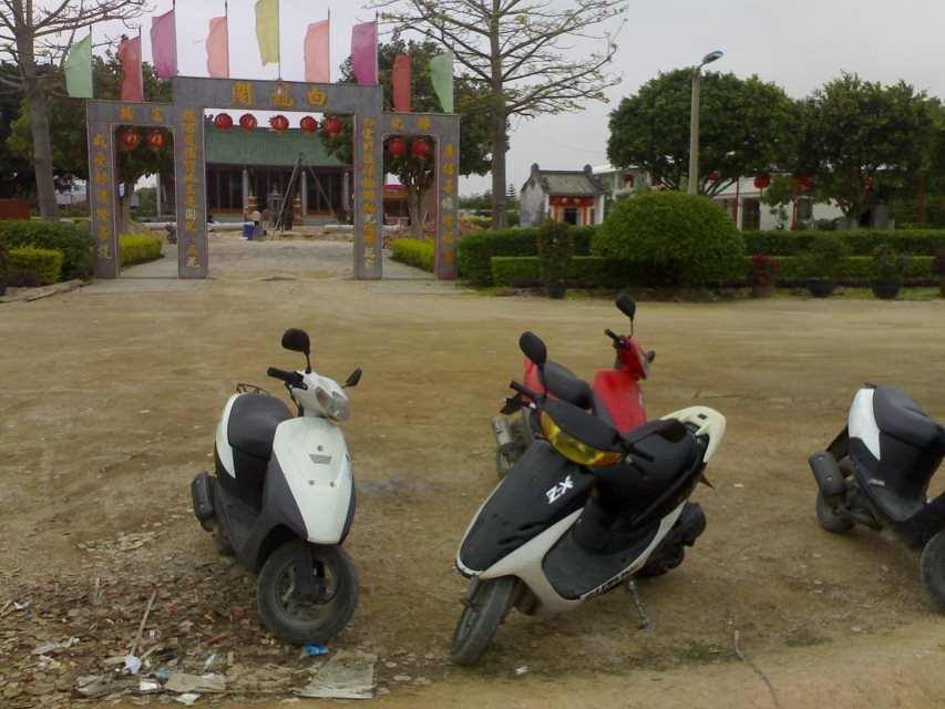 Bailongge_temple in Jieshi Town